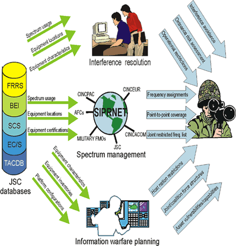 Chartjunk maintained by the Joint Spectrum Center, Defense Information Services Agency